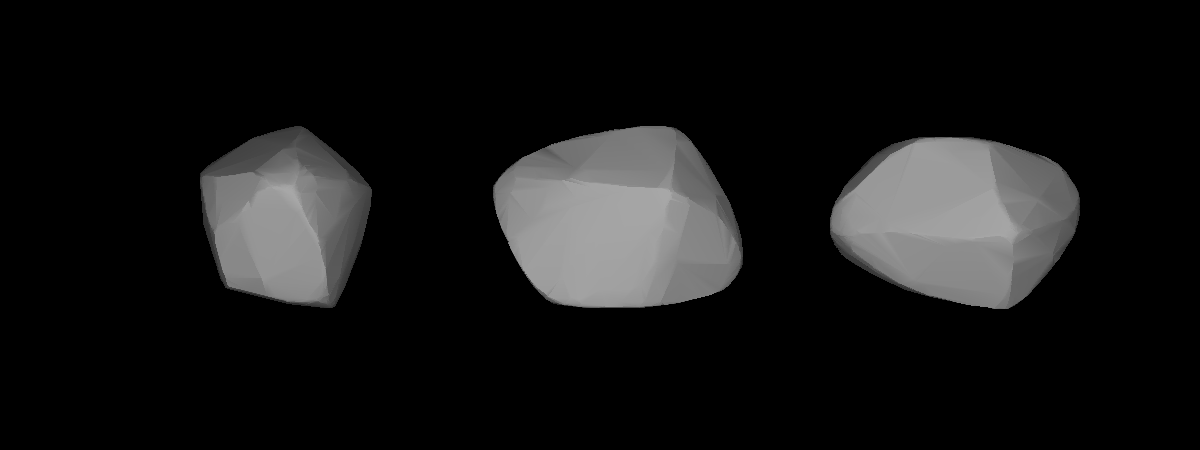 A three-dimensional model of 1715 Salli that was computed using light curve inversion techniques.